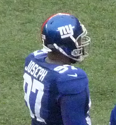 NY Giants defense vs the Browns, 2012